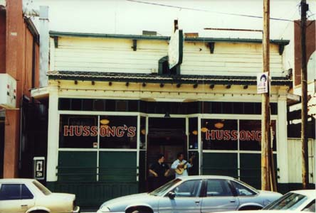 Hussong's Cantina, the oldest and best known cantina in Baja California, Mexico, 1999.